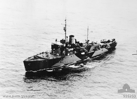 Photograph of Australian Bathurst class minesweeping corvette HMAS Wollongong (J172) In 1946 she was transferred to the Royal Netherlands Navy as HNMLS Banda. In 1950 she was transferred to the Indonesian Navy as KRI Radjawali.